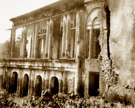 Old image of Baranagar Math. The monastery crumbled to dust in 1897